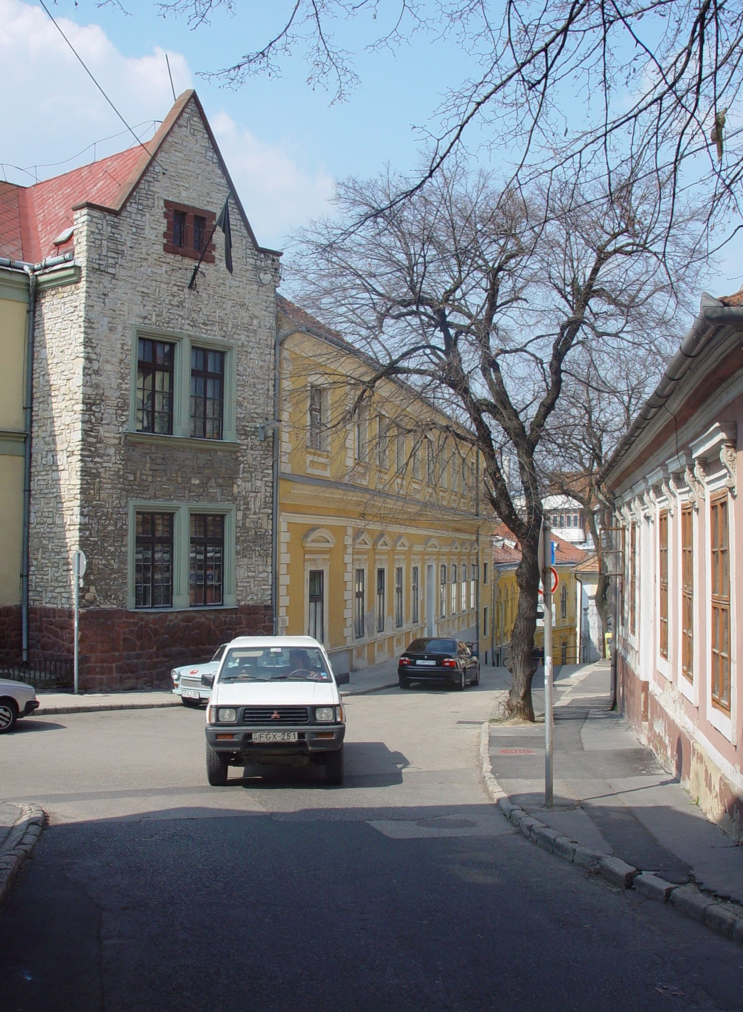 Downtown street with Catholic school in Veszprém